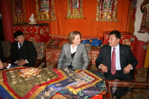 Judith McHale, U.S. Under Secretary for Public Diplomacy and Public Affairs, with Mongolian Ministers Otgonbayar and Bayartsogt at dinner following a tour of Amarbayasgalant Monastery in Mongolia, 2010.